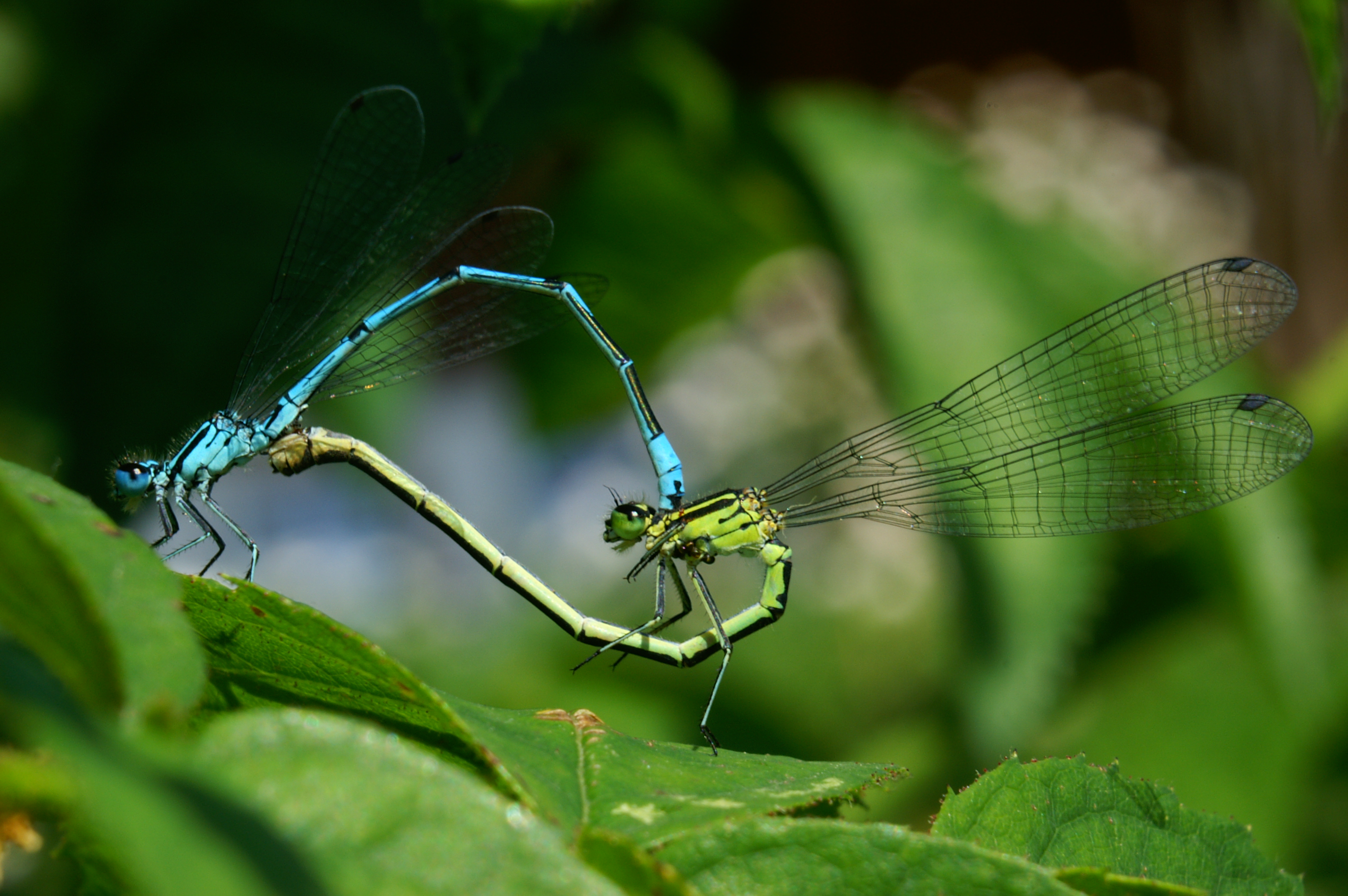 Azure Damselfly Maiting